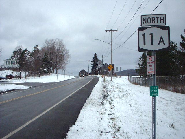 First reassurance and reference markers on New York State Route 11A northbound in the town of Tully.